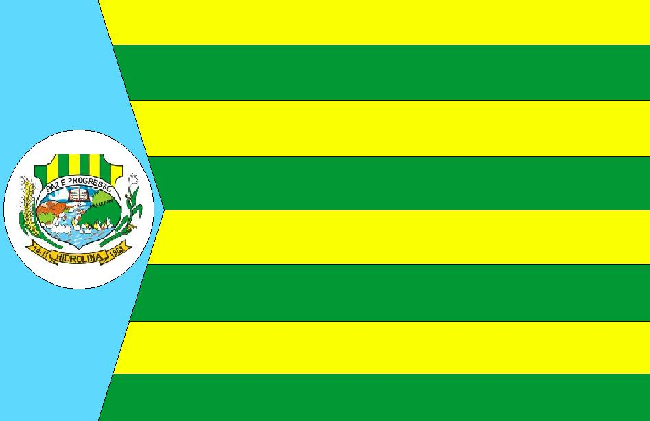 Bandeira de Hidrolina